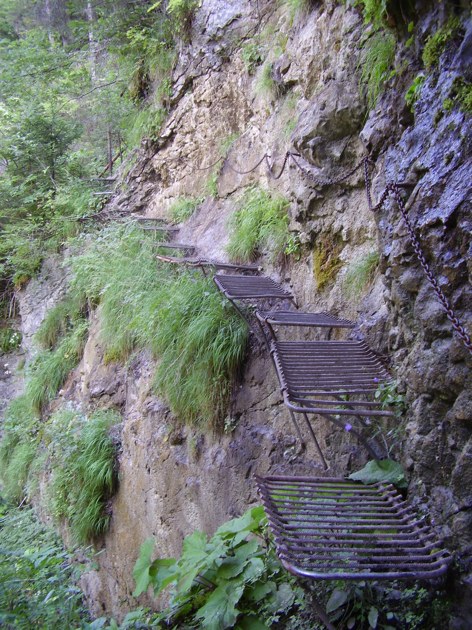 Prielom Hornádu canyon near Letanovský mlyn